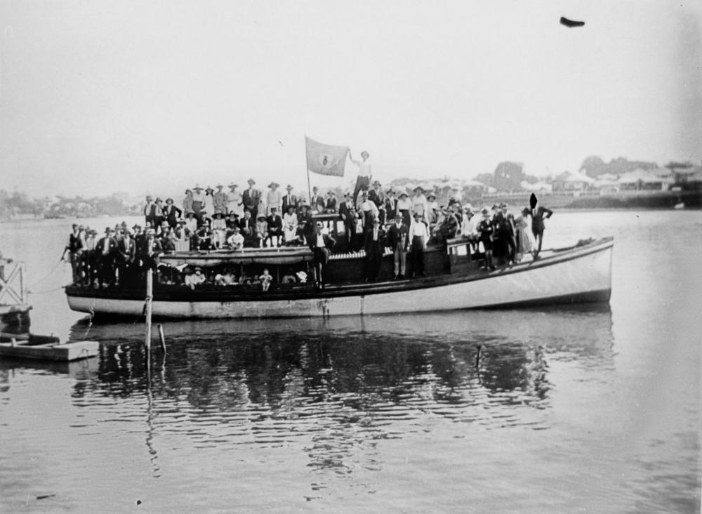 Pineapple Rovers Soccer Club excursion on the river, ca. 1918 Pineapple Rovers were from Kangaroo Point, Brisbane.